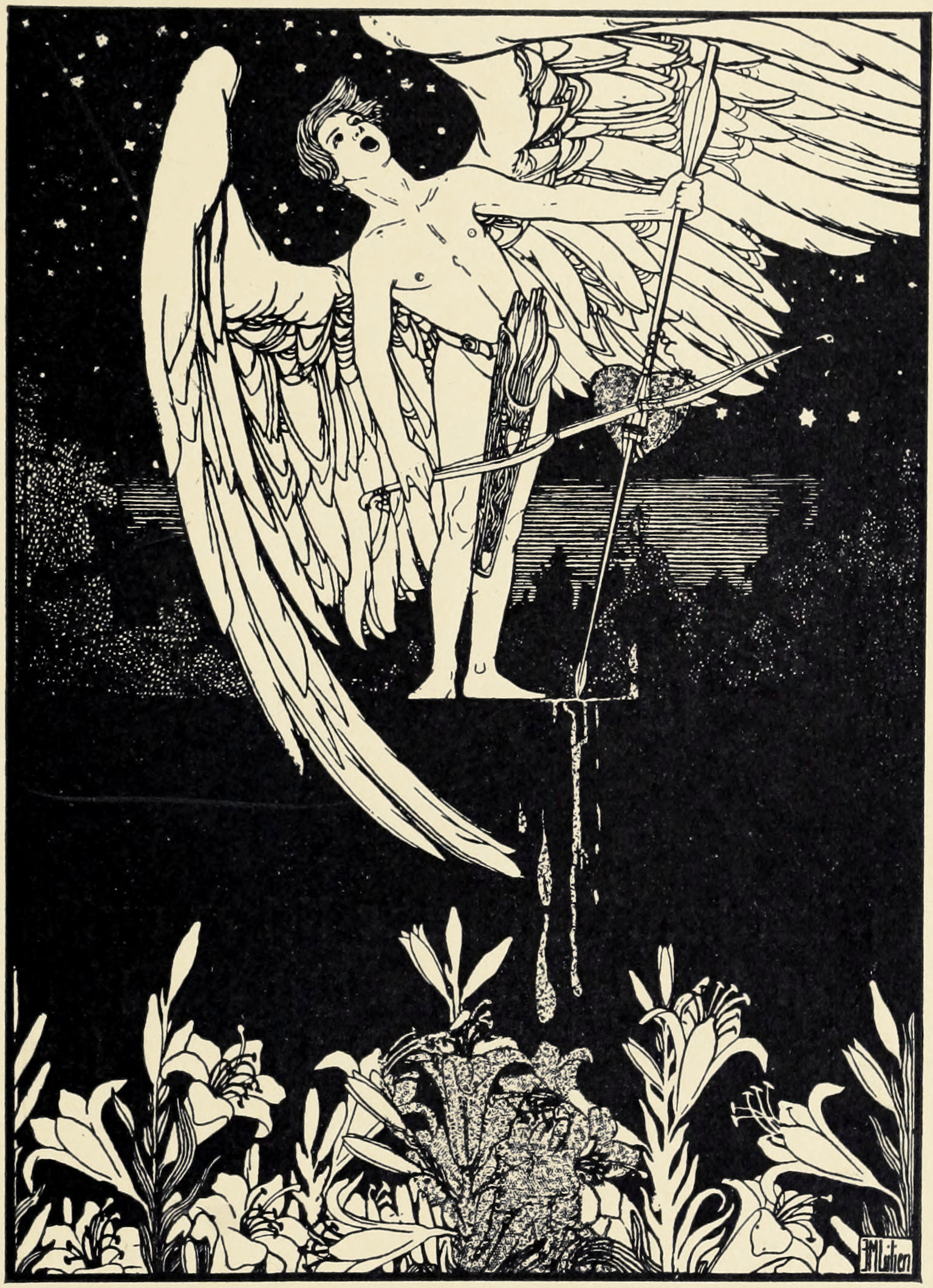 Ephraim Moses Lilien, "Amoroso", Jugend, German magazine, No. 50, December 1900.